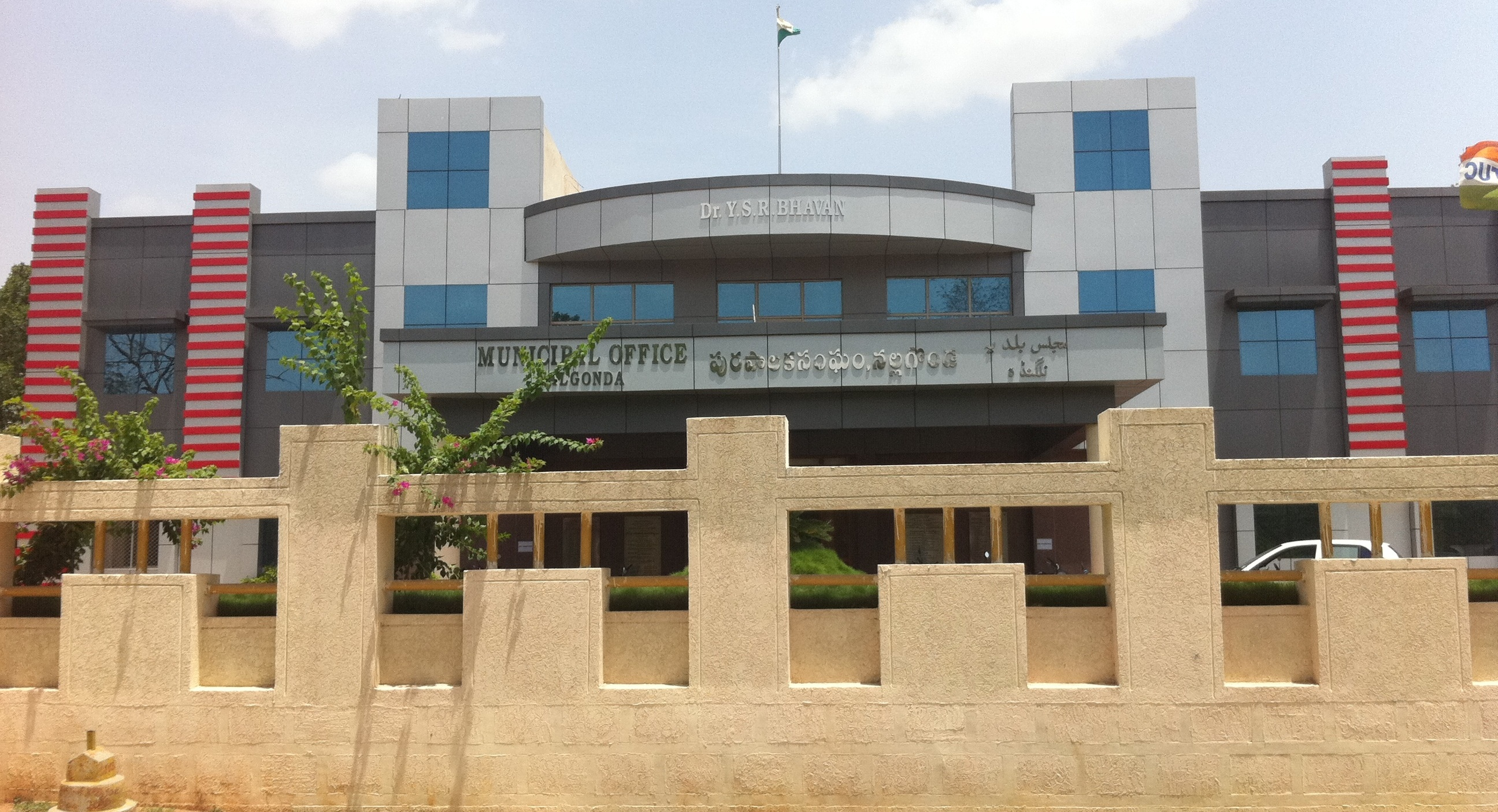 Muncipal Office